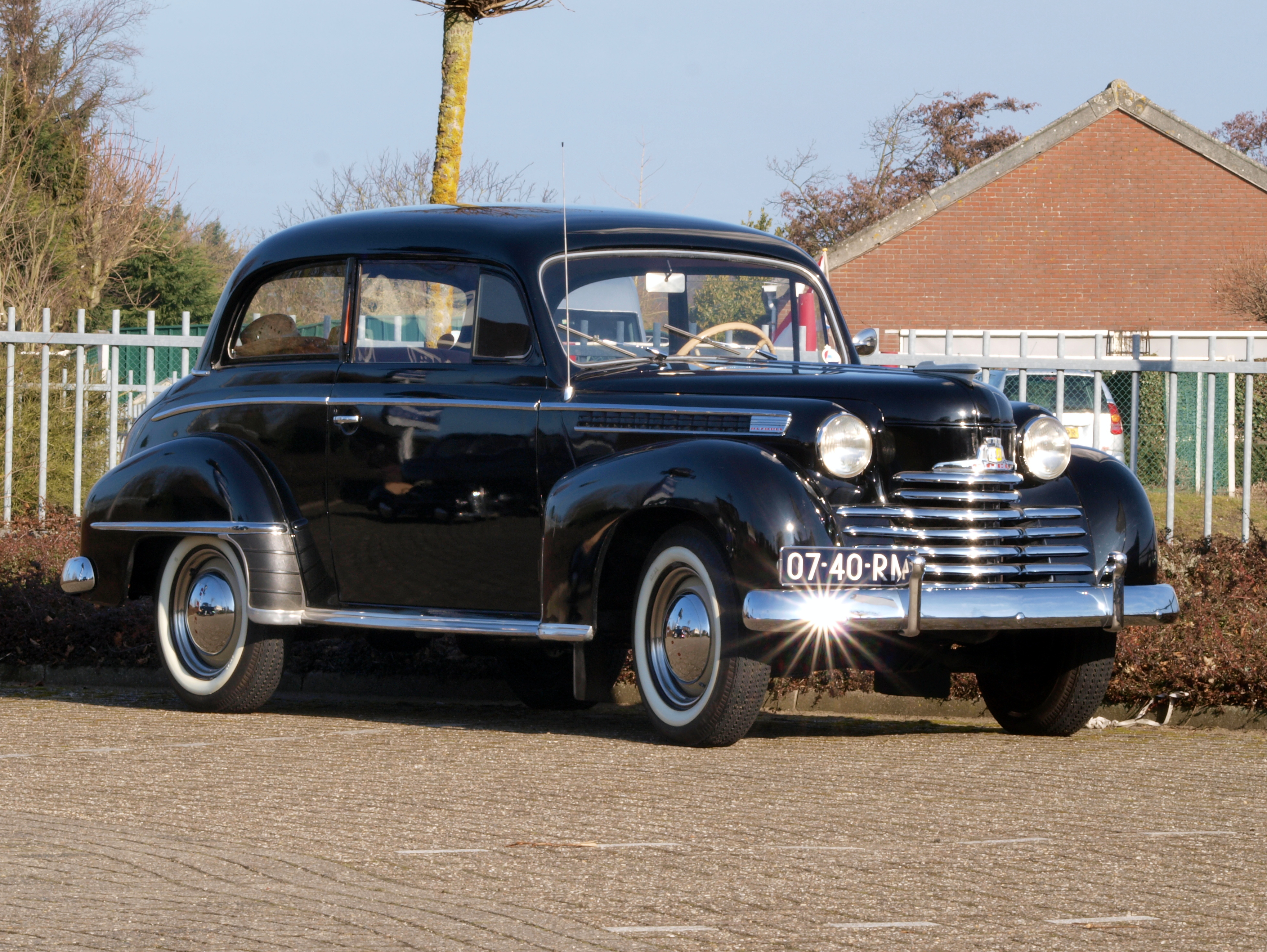 Photographed in front of the Den Hartogh Ford Museum.